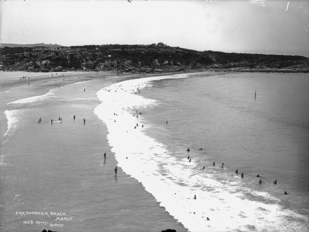 'Beaches' Pictures from The Powerhouse Museum This files was posted to Flickr by The Powerhouse Museum (See their website for further information). Many thanks to the Powerhouse Museum for helping release this wonderful material. This tag does not indicate the copyright status of the attached work. A normal copyright tag is still required. See Commons:Licensing for more information. This image is of Australian origin and is now in the public domain because its term of copyright has expired. According to the Australian Copyright Council (ACC), ACC Information Sheet G023v17 (Duration of copyright) (August 2014). Type of materialCopyright has expired if ... A Photographs or other works published anonymously, under a pseudonym or the creator is unknown:taken or published prior to 1 January 1955 B Photographs (except A):taken prior to 1 January 1955 C Artistic works (except A & B):the creator died before 1 January 1955 D Published editions1 (except A & B):first published more than 25 years ago E Commonwealth or State government owned2 photographs and engravings:taken or published more than 50 years ago and prior to 1 May 1969 1 means the typographical arrangement and layout of a published work. eg. newsprint. 2owned means where a government is the copyright owner as well as would have owned copyright but reached some other agreement with the creator. When using this template, please provide information of where the image was first published and who created it.